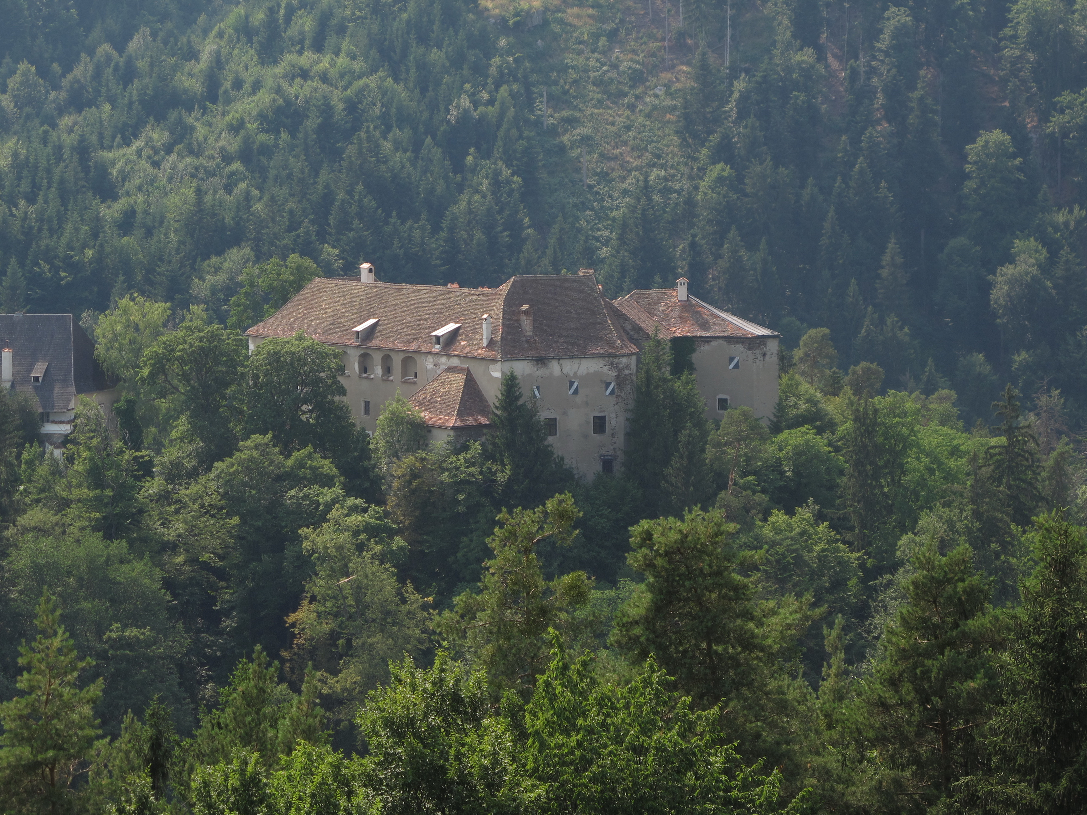 Castle Gutenberg an der Raabklamm